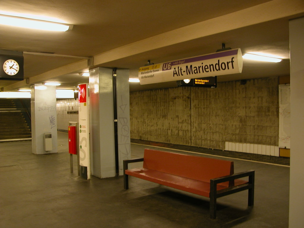 Platform of Berlin U-Bahn station Alt-Mariendorf